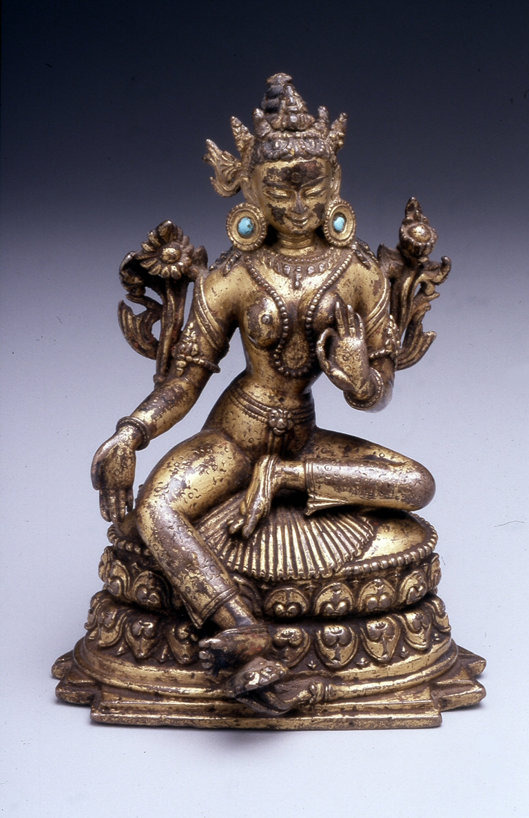 This figure sits in the "lalitasana" posture on a lotus and has the stalks of two lotuses attached to both arms. Her left hand displays the gesture of teaching, and her extended right arm exhibits the gesture of charity. Her garment's pleats spread out like a fan on the lotus seat; she wears a tiara with five crests, large elaborate turquoise-inlaid earrings, and a long strand of pearls which hangs between her breasts.